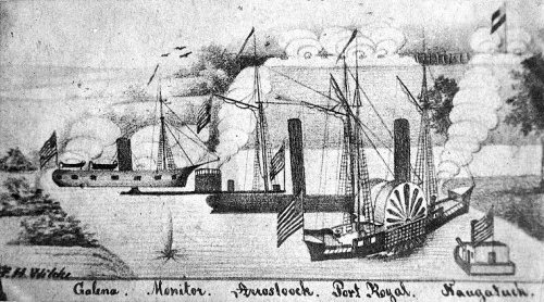 Contemporary pencil sketch by F.H. Wilcke, depicting the Union warships Galena, Monitor, Aroostook, Port Royal and Naugatuck (listed as shown, left to right), under the command of Commander John Rodgers, bombarding the Confederate fort at Drewry's Bluff.